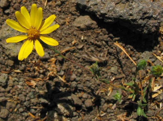 Pentachaeta lyonii at Triunfo Creek Park, Santa Monica Mountains National Recreation Area, California, USA.